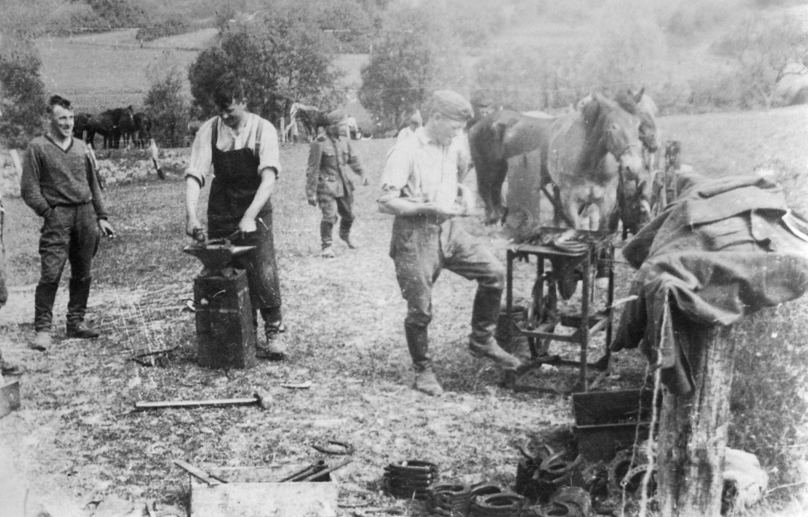 The exact date and place is unknown. Picture was taken by my grandfather.